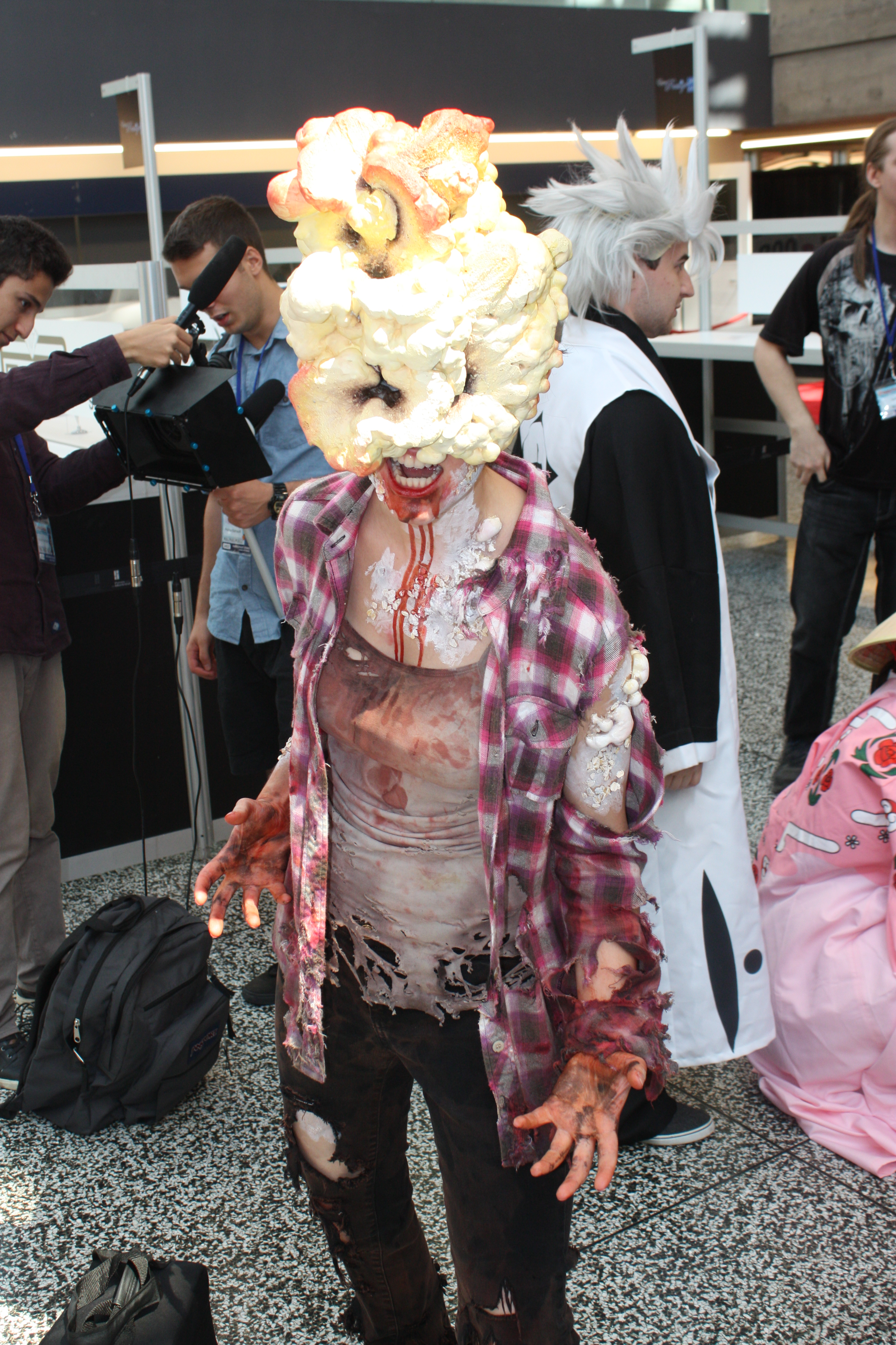 Otakuthon 2014: Clicker (The Last of Us)